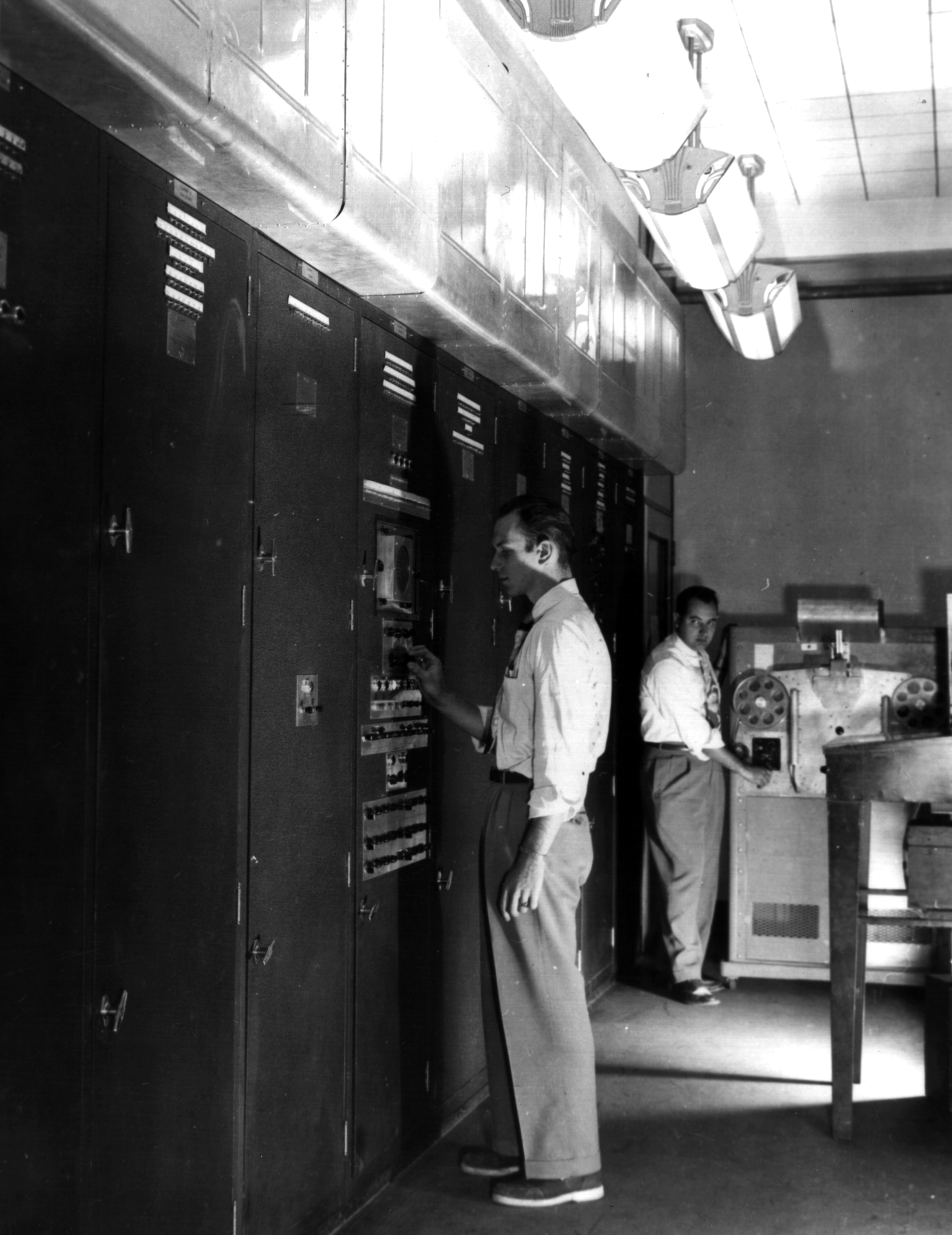 U.S. Army Photo of EDVAC as installed in BRL building 328. Man at the paper tape machine: Richard Bianco.